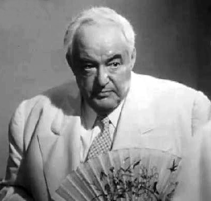 Sydney Greenstreet in Across the Pacific - trailer (cropped screenshot)